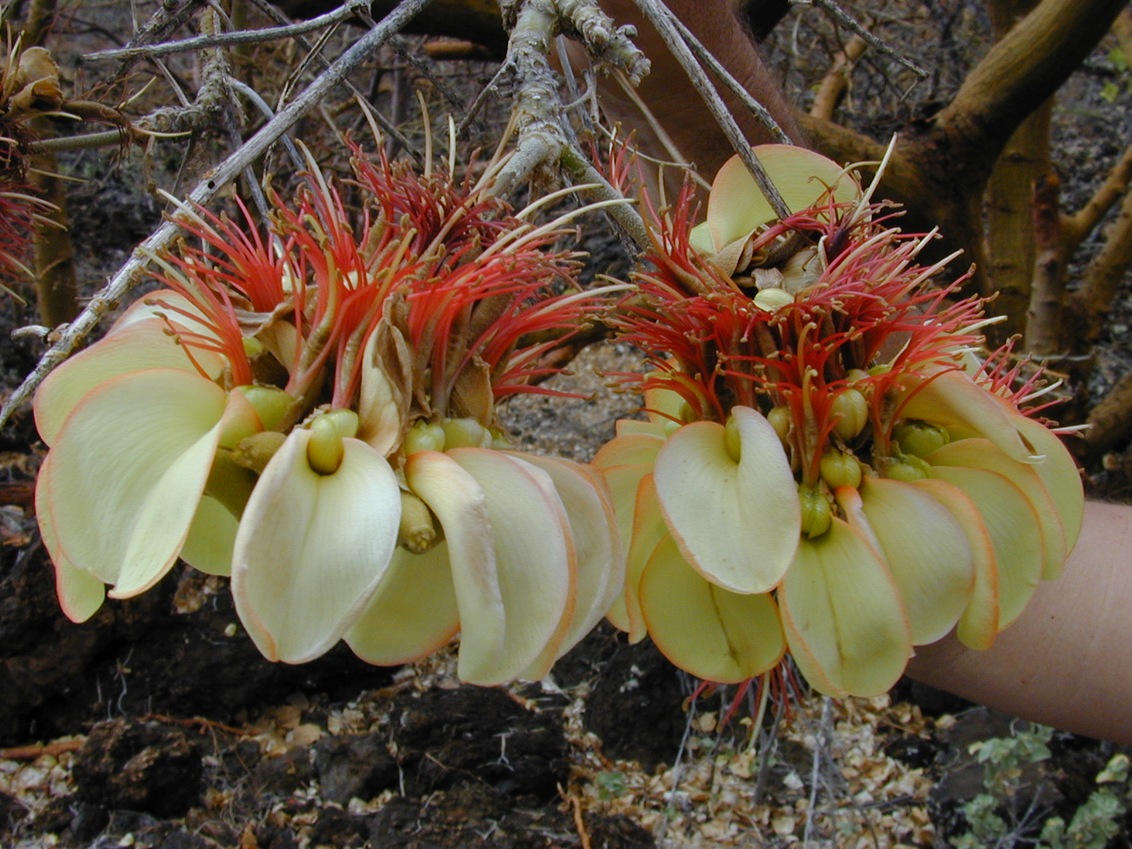 Erythrina sandwicensis (flowers). Location: Maui, Puu o Kali